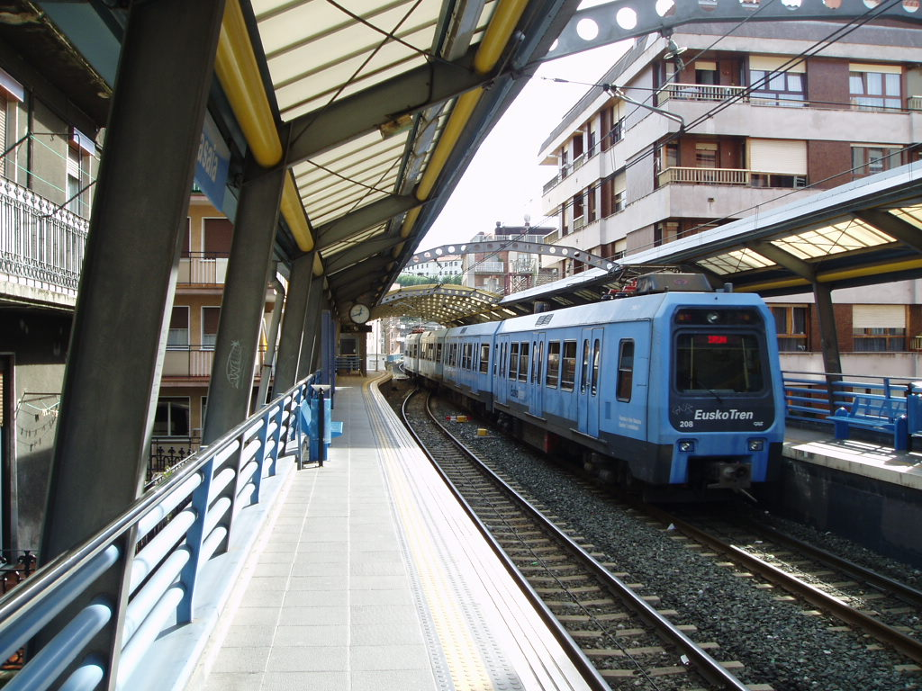 Railway station of Pasaia/Pasajes (Gipuzkoa). Operating company: Euskotren.